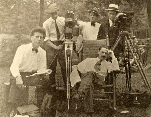 From left: Assistant director Thomas Walsh, cameraman Ned Van Buen, assistant director Edward James, cameraman Edward Wynard, and director Roy William Neill. On page 1256 of the August 9, 1919 Motion Picture News.